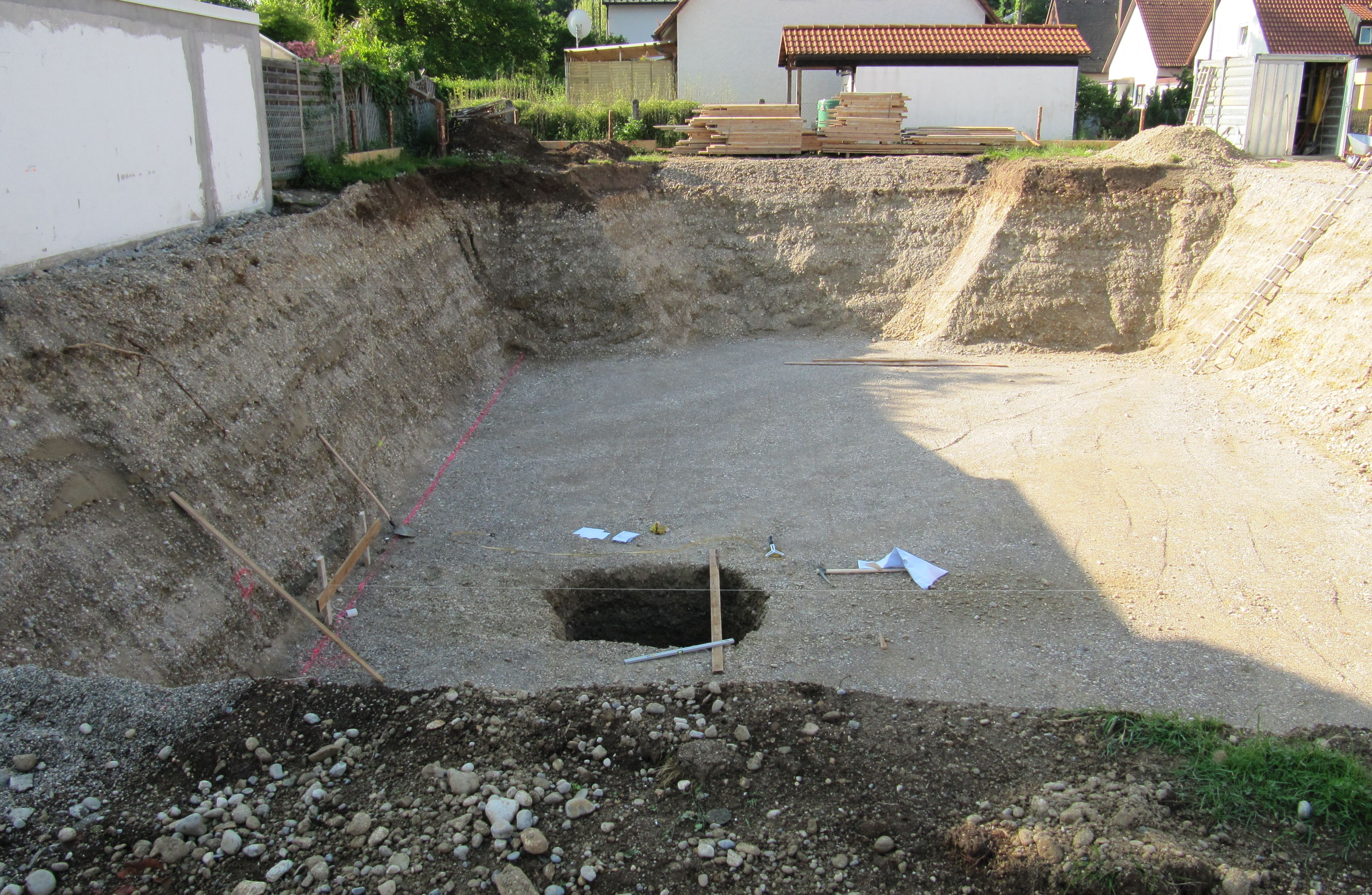 Munich-Aubing: Building pit at the corner of Altenburgstraße and Hoheneckstraße.